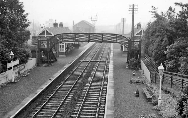 Bridge of Earn Station. View SE, towards Forth Bridge and Edinburgh/Glasgow, also left to Newburgh; ex-NBR Edinburgh/Glasgow - Perth main line, junction of the line from Ladybank via Newburgh. THe station was closed to passengers on 15/6/64 (goods 21/6/65) and on 5/1/70 the main line via Glenfarg was closed (and the M9 Motorway built over it), trains to Perth being diverted (from 10/75!) via Ladybank over the Newburgh line, which had lost its local passenger trains on 19/9/55.